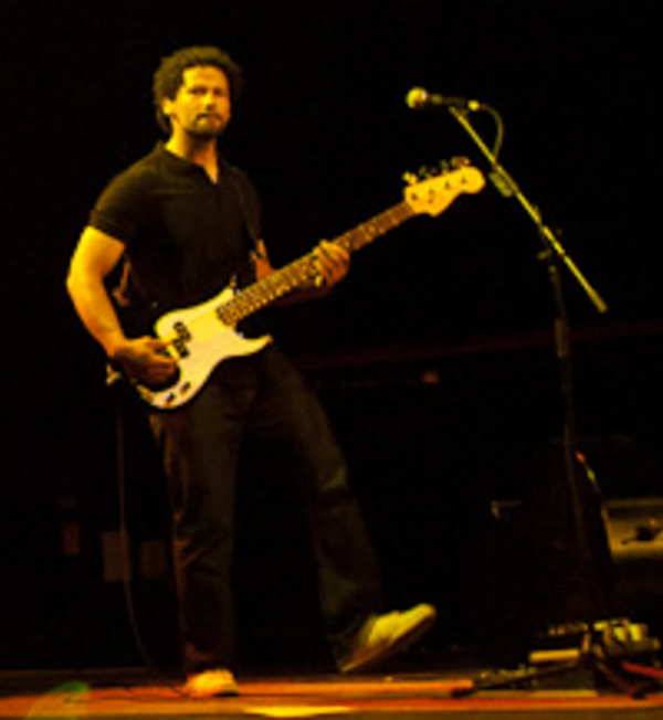 Crop of John Butler Trio Toronto upload2012.jpg depicting bassist of the John Butler Trio, Byron Luiters, performing in Toronto c. 2012